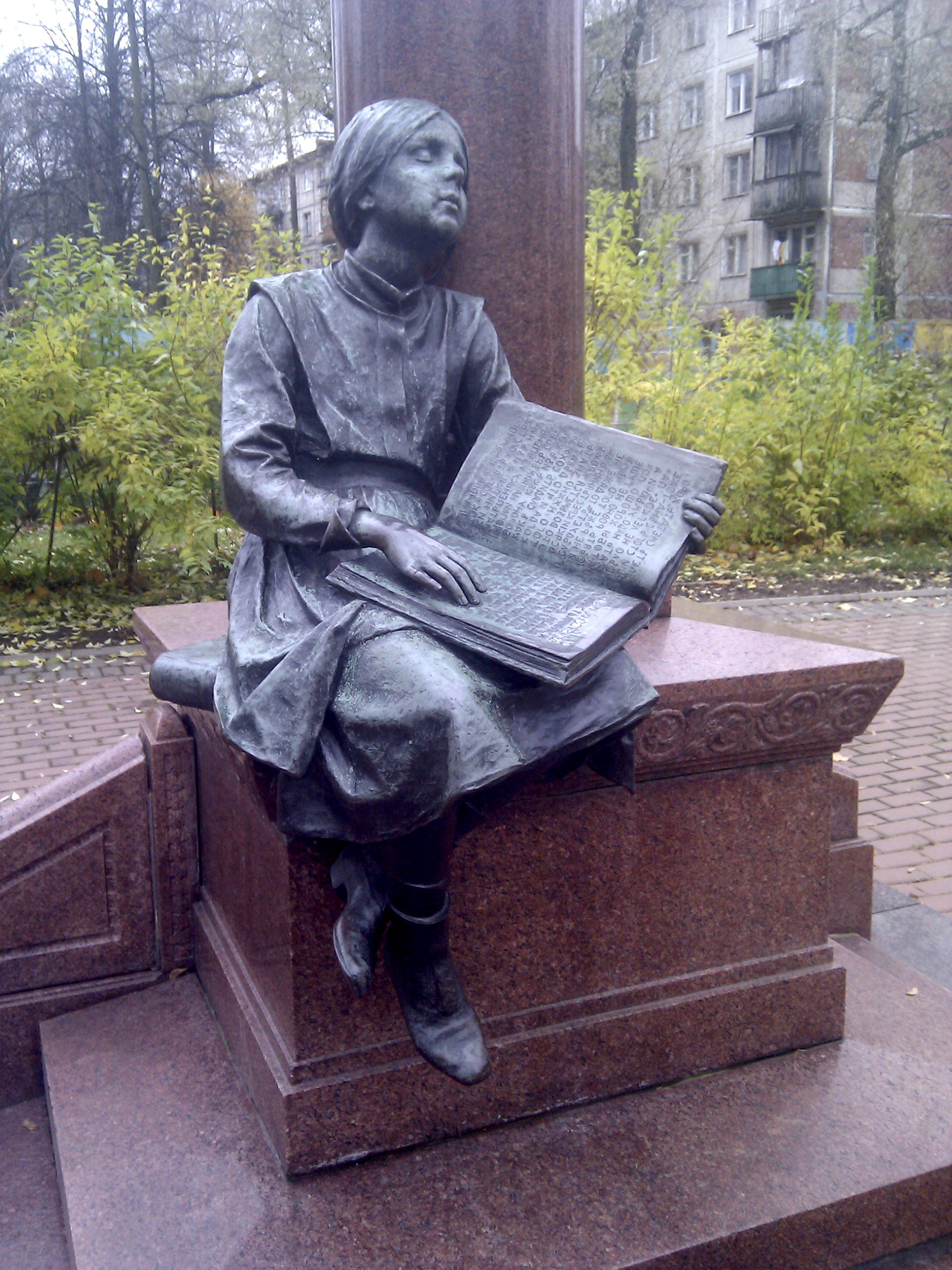 "The monument devoted to Konstantin Konstantinovich Grot in the yard of the school for blind childs in Saint-Petersburg. The fragment of the monument - the blind girl with the book.